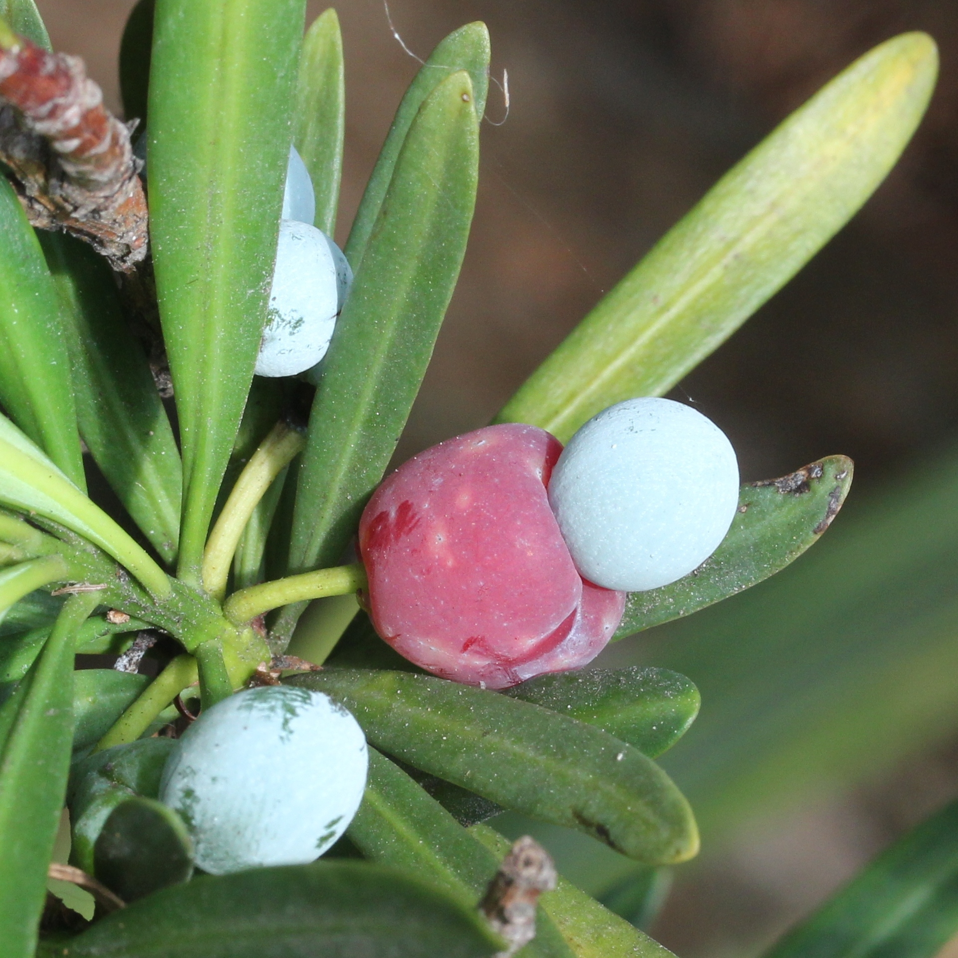 Podocarpus macrophyllus var. maki, cultivated, in Japan.